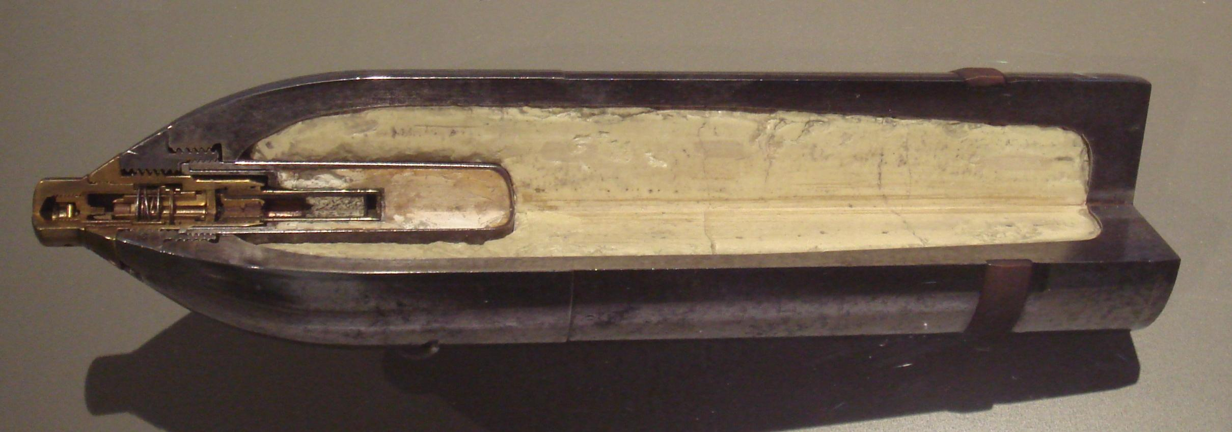 75mm_melanite_shell_section_for_instruction